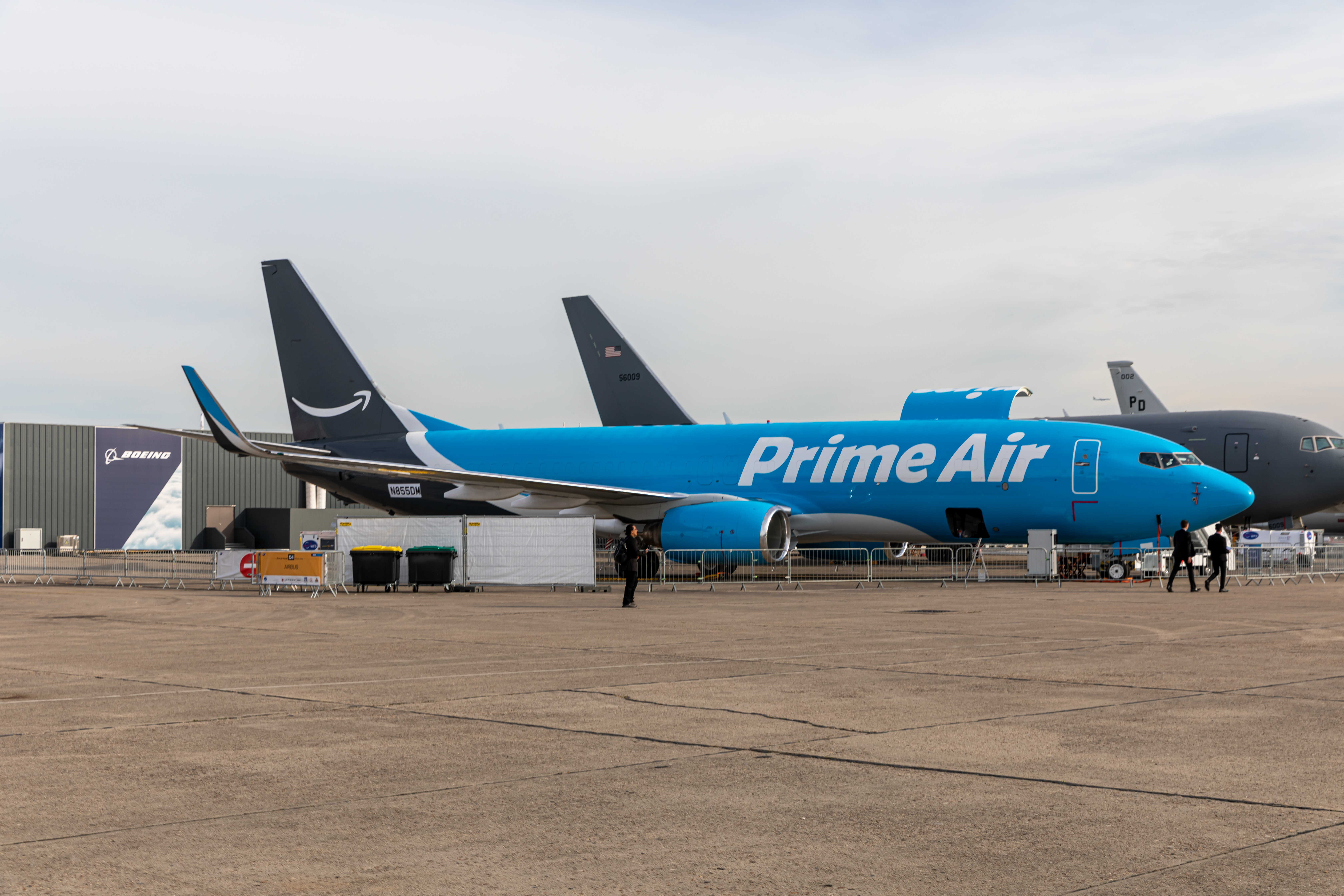 Boeing 737-800 BCF of Amazon Prime Air at Paris Air Show 2019